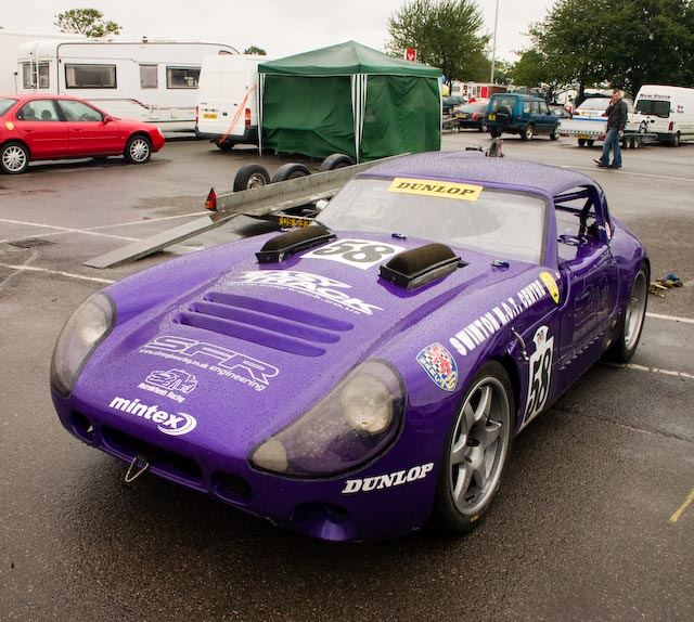 TVR Tuscan Challenge racecar with optional but rare hardtop at the paddock in Oulton Park